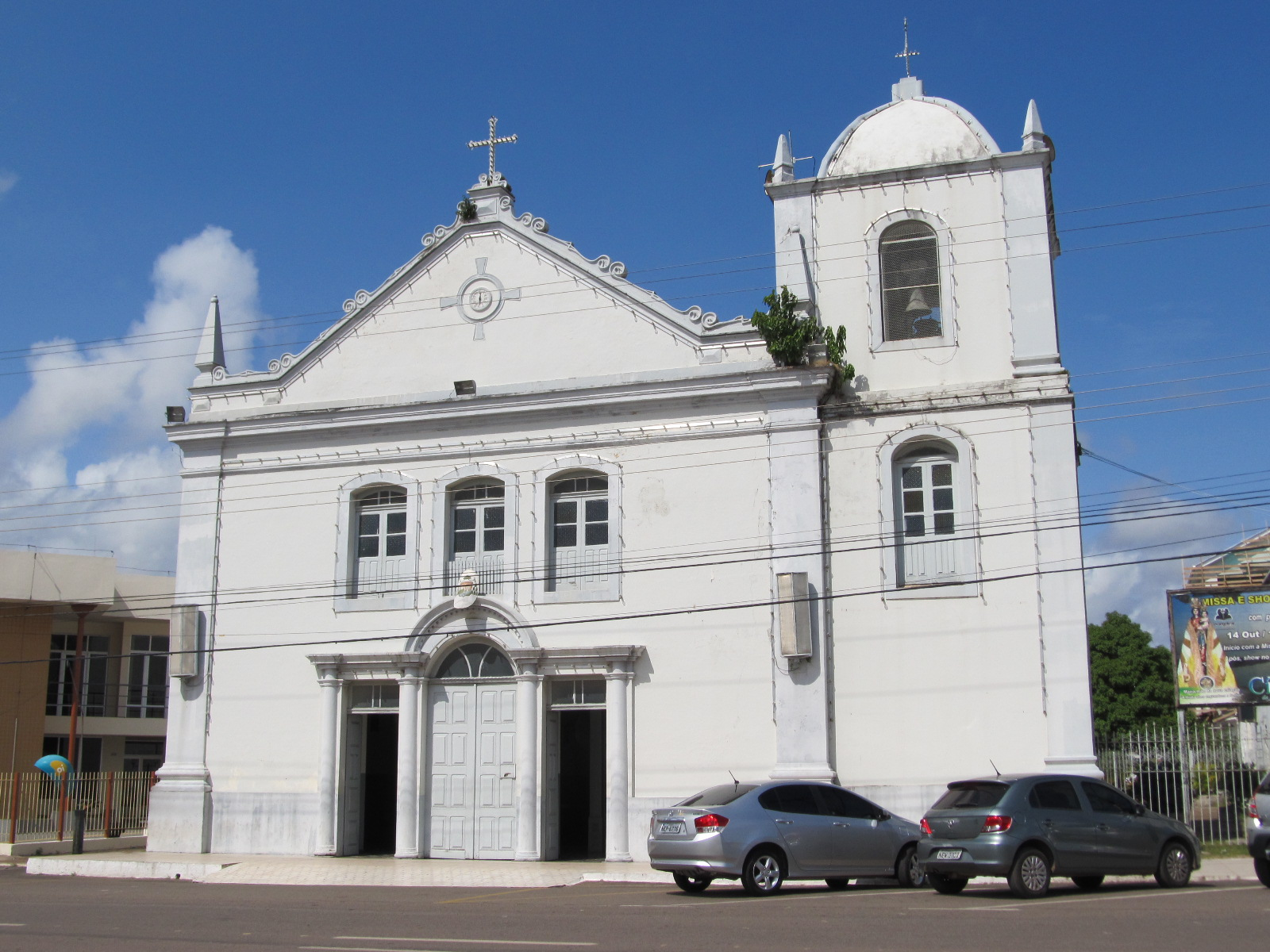 Saint Joseph Church, Macapa city, Brazil (1)